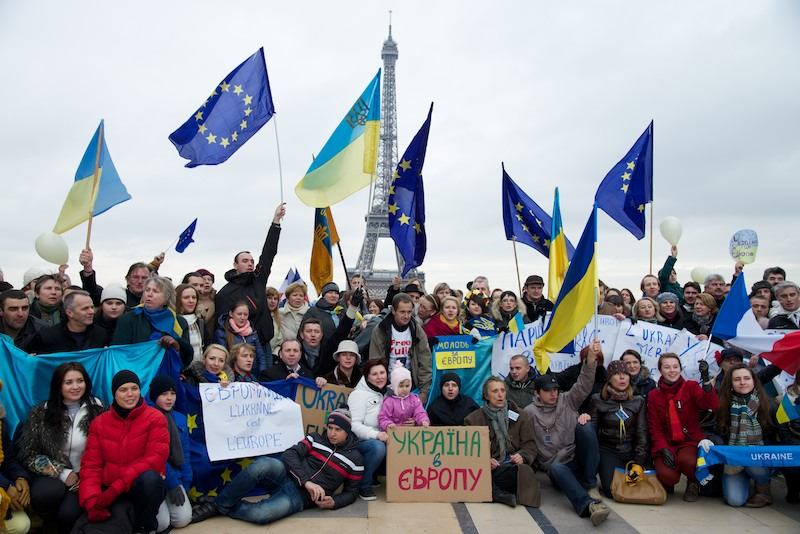 Euromaidan Paris 2013